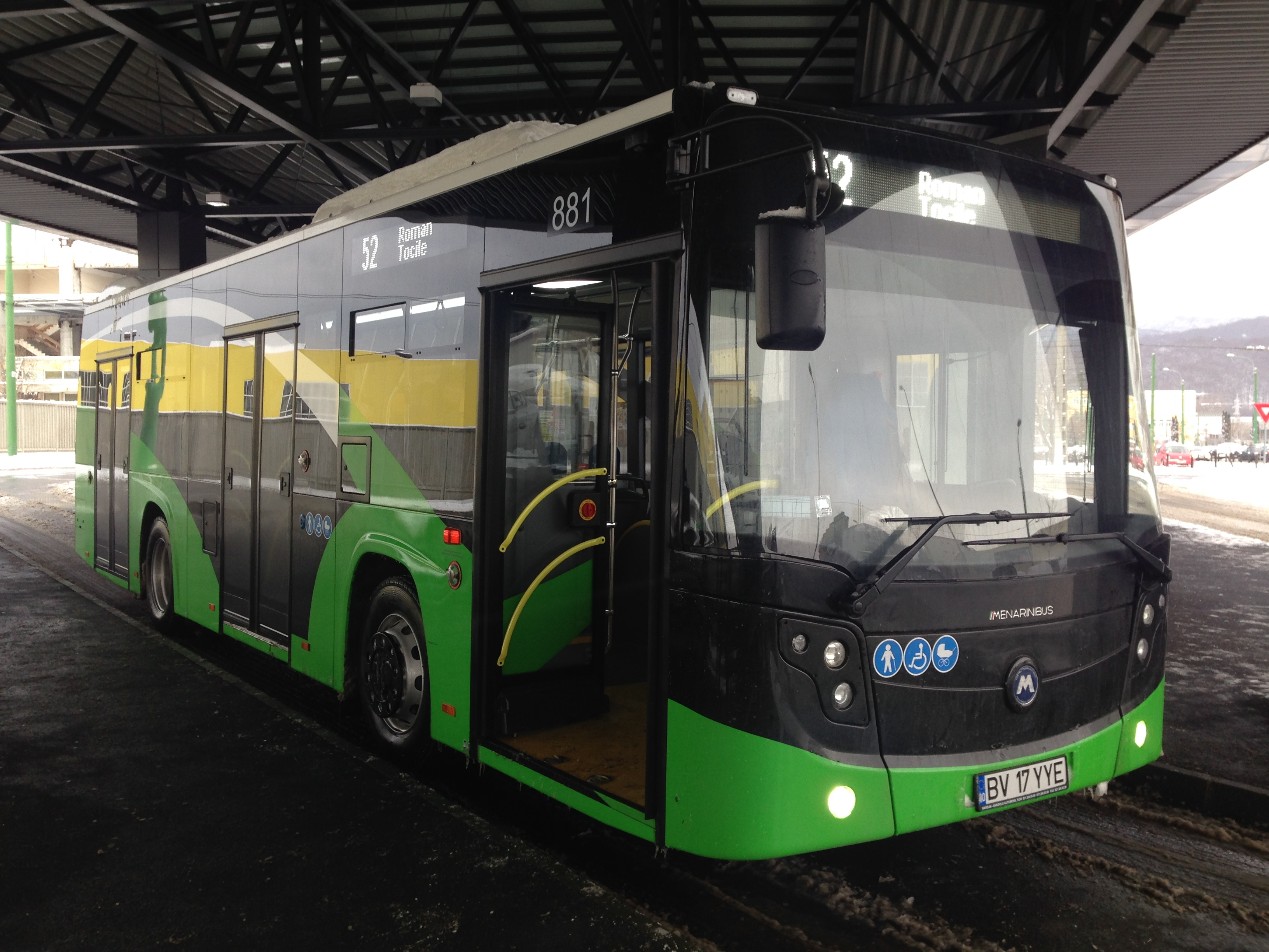 Menarinibus Citymood 10 of the RAT Braşov (#881) on 12 January 2019 at the Roman bus stop in Braşov, Romania